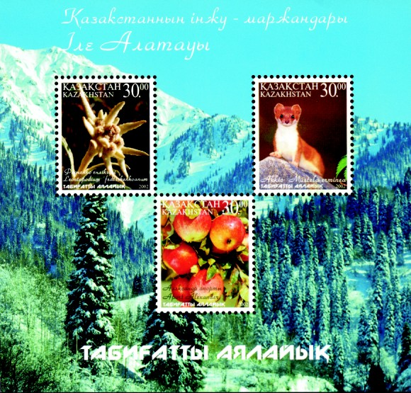 Stamp of Kazakhstan